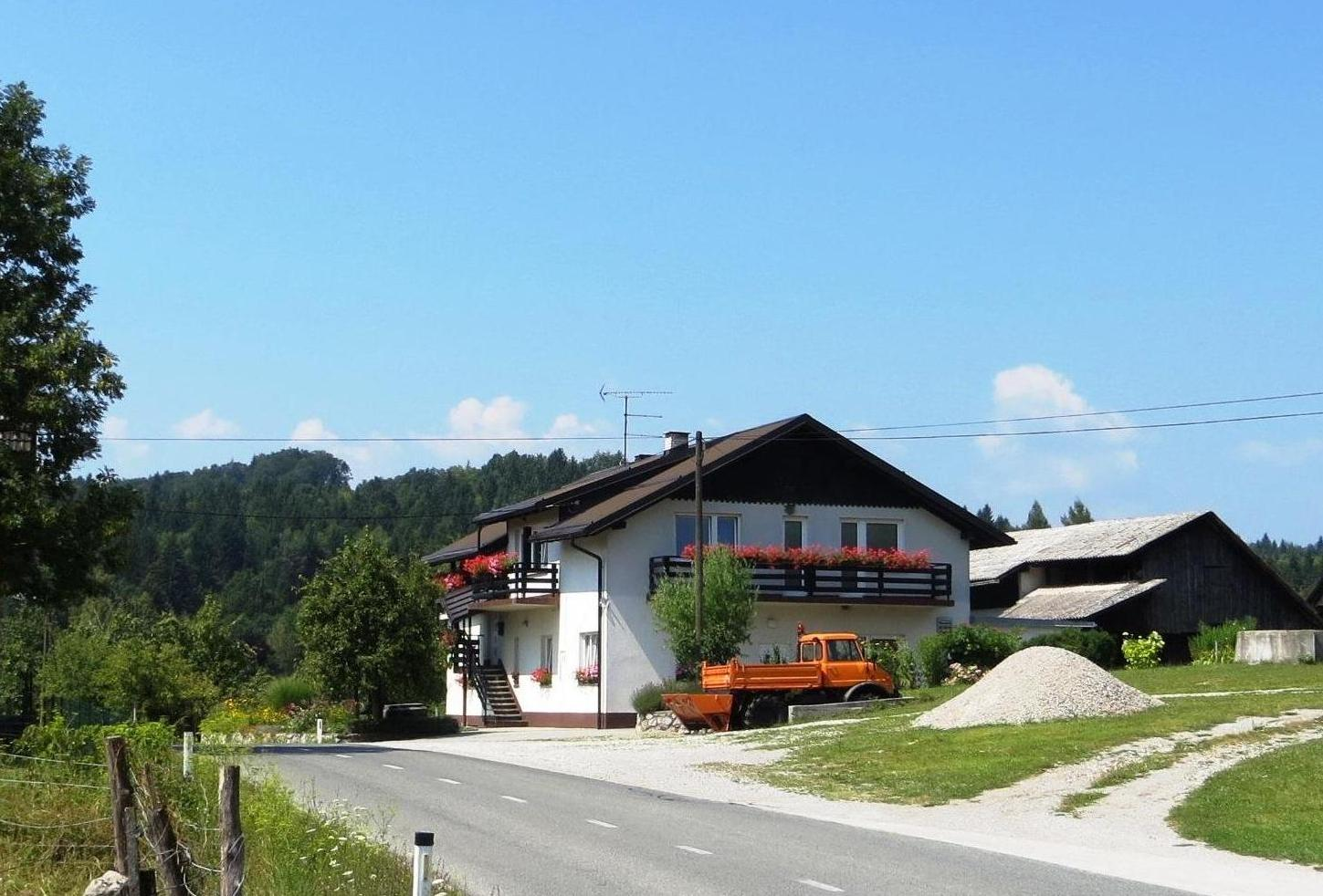 Site of former church in Stari Log, Municipality of Kočevje, Slovenia